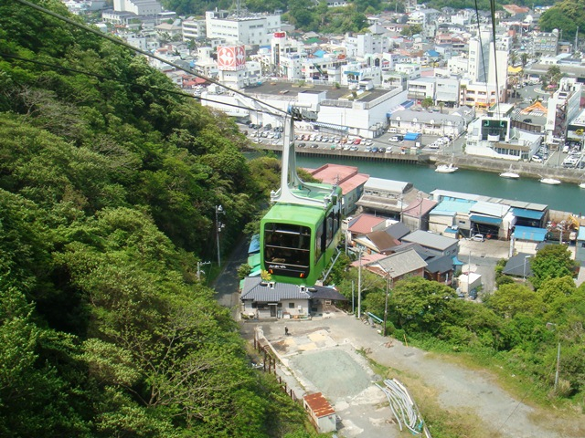 The gondola to the Nesugata-yama Park, Shimoda.